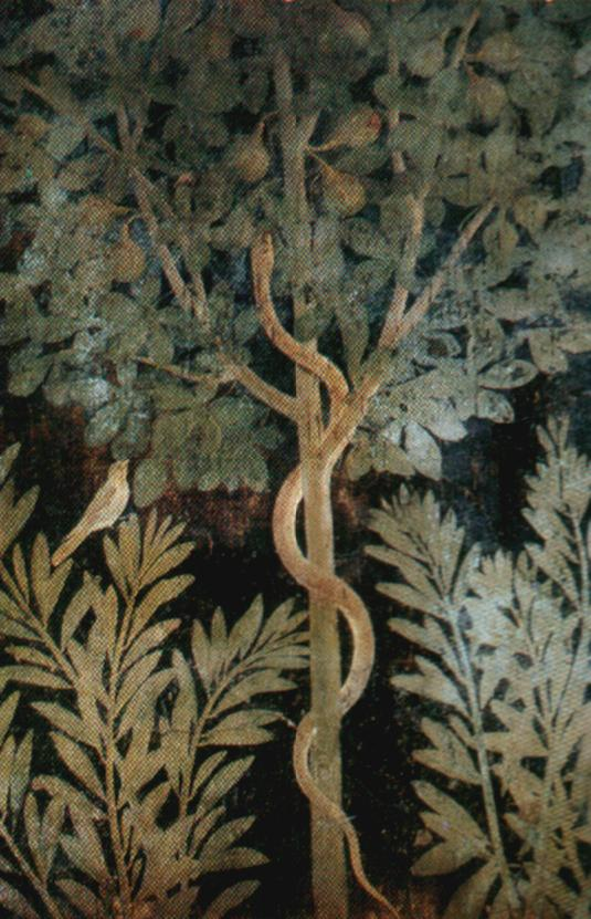 ancient roman fresco of Pompeji (Casa del frutteto)